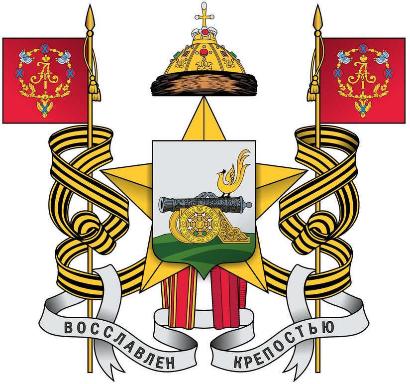 Smolensk (Smolensk oblast), coat of arms (2001)